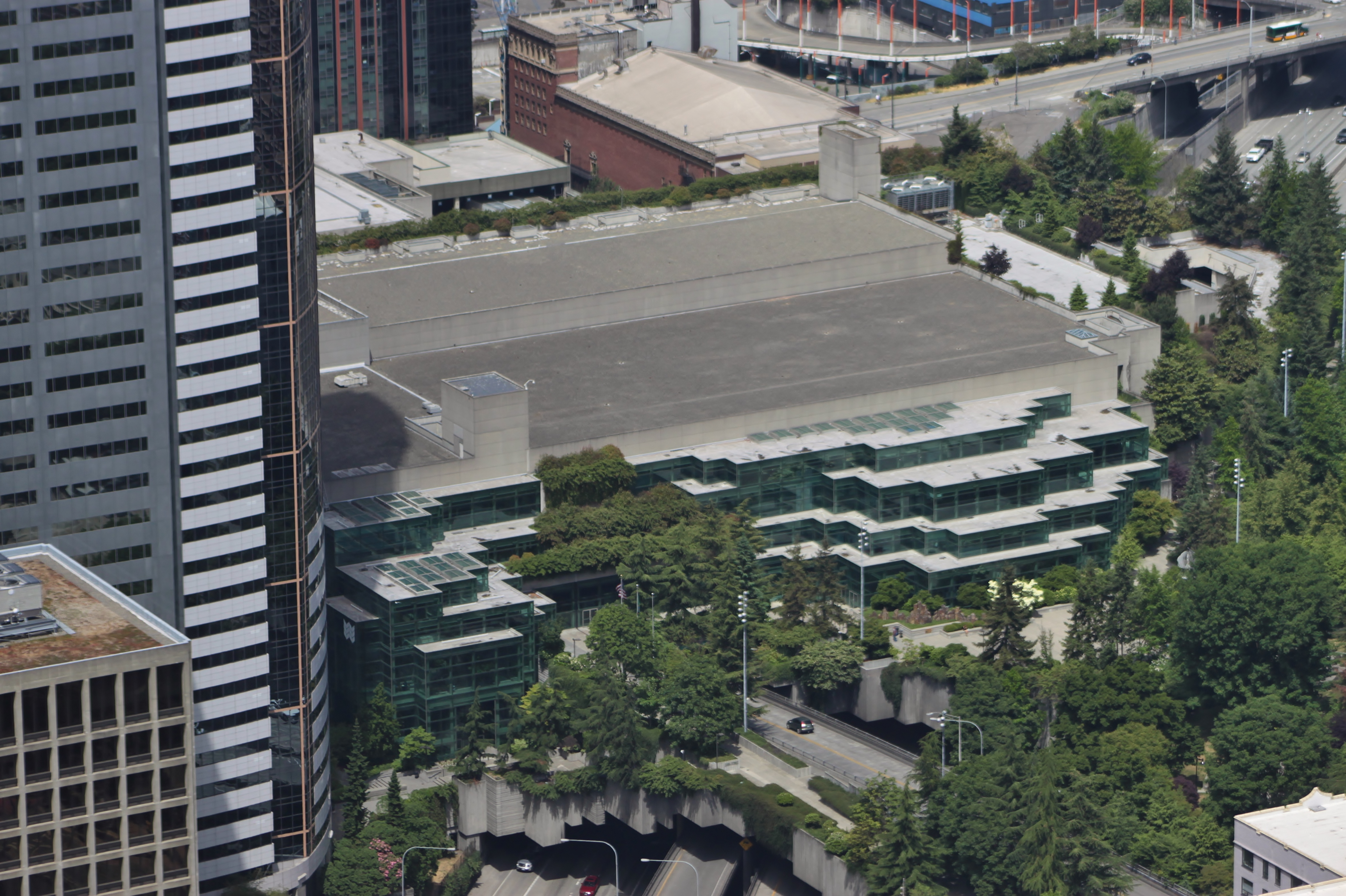 An elevated view of the Washington State Convention Center in Downtown Seattle, Washington, US, seen from the observation deck at the Columbia Center.